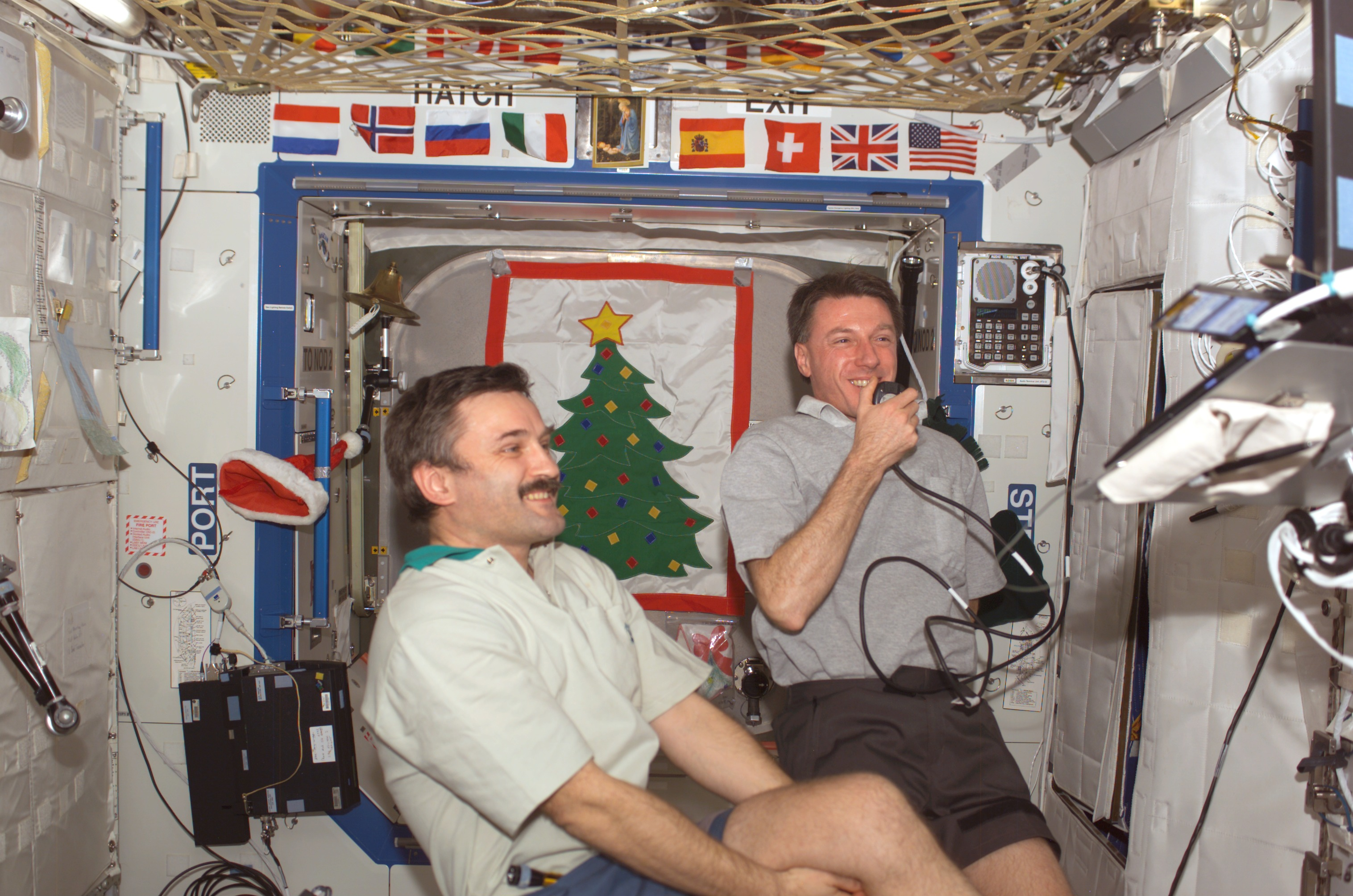 Expedition 8 crewmembers -- Flight Engineer Alexander Kaleri, left, and Commander Michael Foale -- mark the Christmas season aboard the Station. Original caption: Astronaut C. Michael Foale (right), Expedition 8 mission commander and NASA ISS science officer, and cosmonaut Alexander Y. Kaleri, flight engineer, conduct a teleconference with the Moscow Support Group for the Russian New Year celebration, via Ku- and S-band, with audio and video relayed to the Mission Control Center (MCC) at Johnson Space Center (JSC). Kaleri represents Rosaviakosmos.